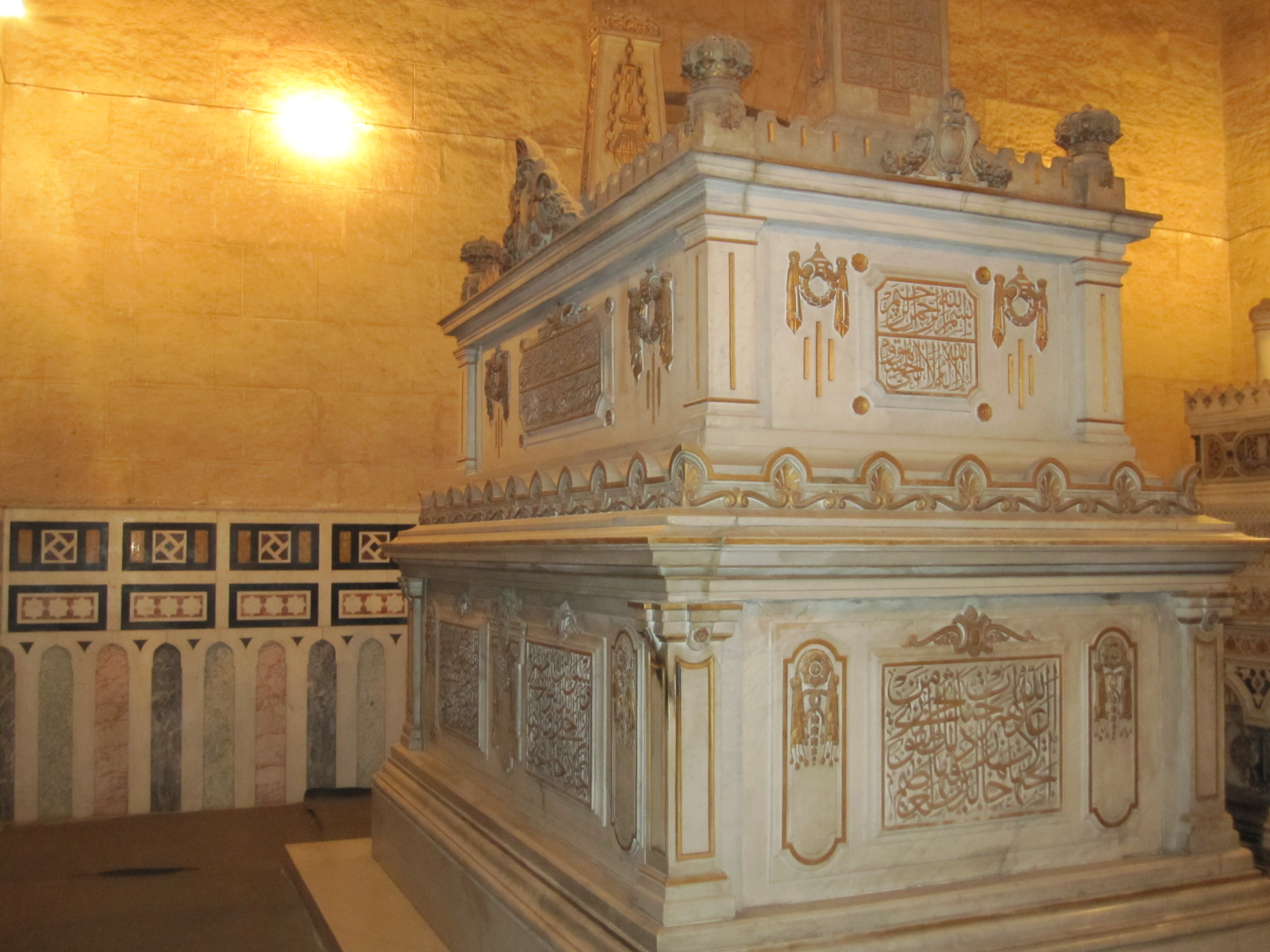 Tomb of Khushiyar Kadin (died in 1886), mother of Khedive Isma'il Pasha of Egypt, whose tomb is visible on the right. The tombs are located in the Rifa'i Mosque in Cairo, which was commissioned by Khushiyar Kadin in order to serve as a final resting place for members of the Muhammad Ali Dynasty.